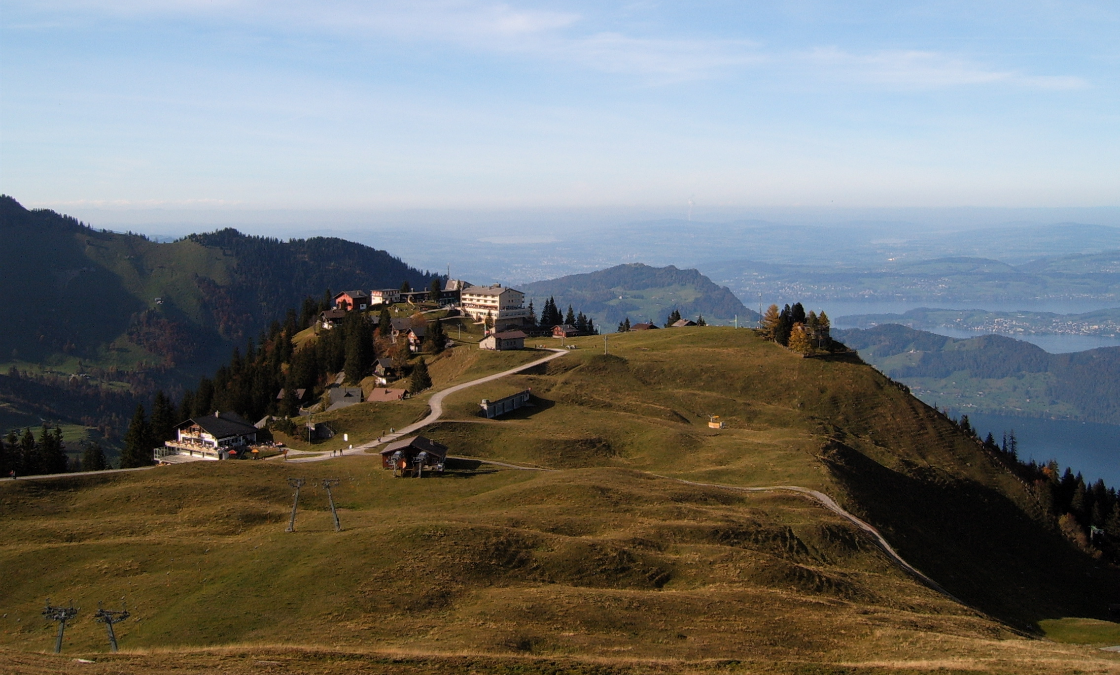 Klewenalp above Lake Lucerne (Canton of Nidwalden, Switzerland)